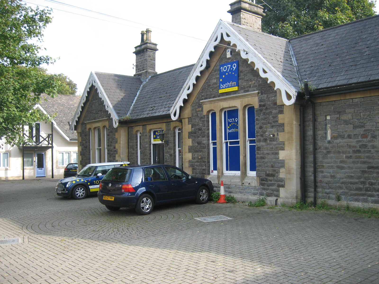 Station on the Midland line between Bath and Bristol, closed as a station in 1953, though passenger traffic continued on the railway until 1966 and goods traffic to 1971. Building now used as Bath FM radio station